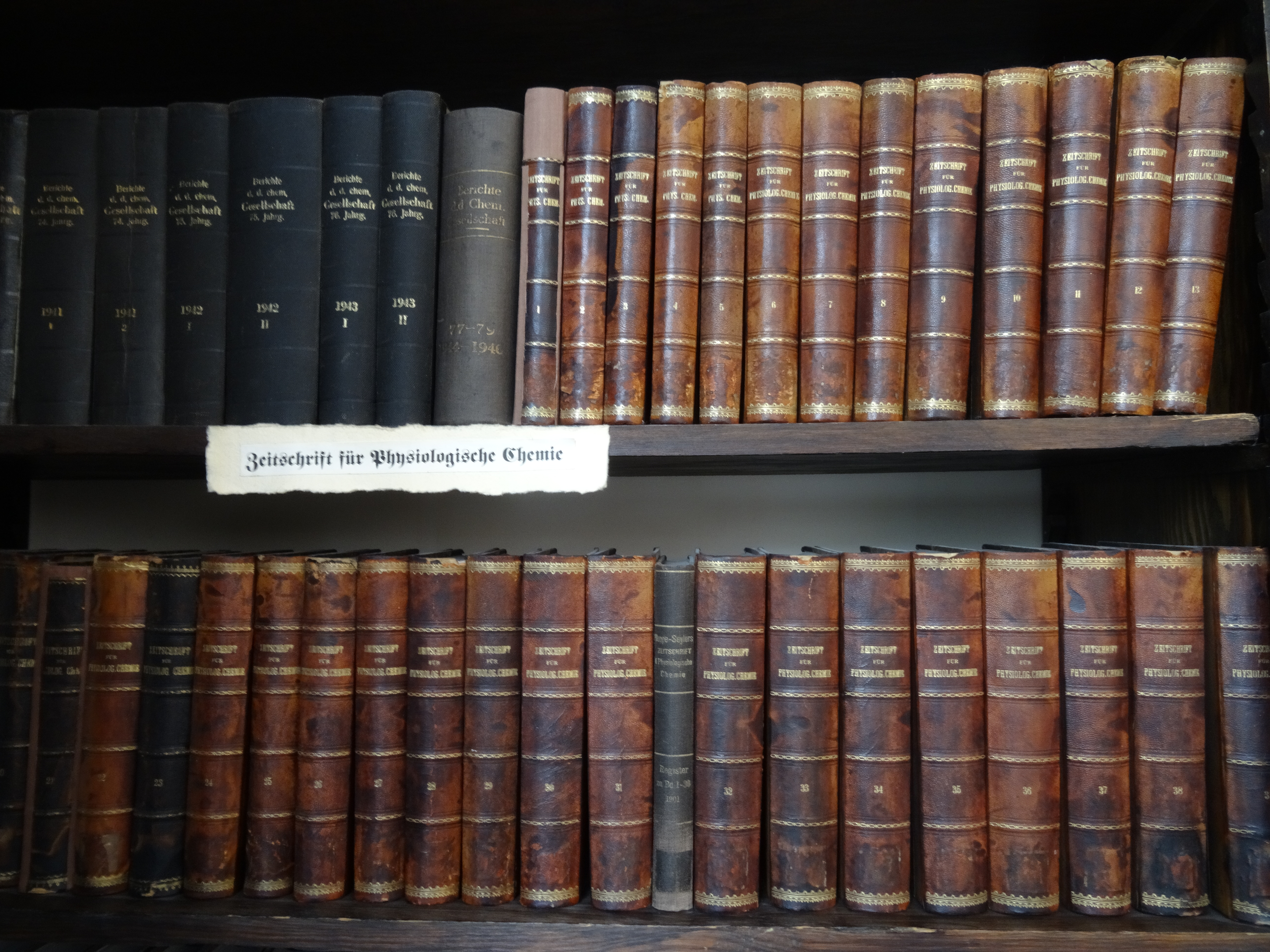 Zeitschrift fur Physiologische Chemie, Faculty of Chemistry, Gdansk University of Technology.